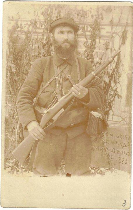 Portrait of Mite Opilski